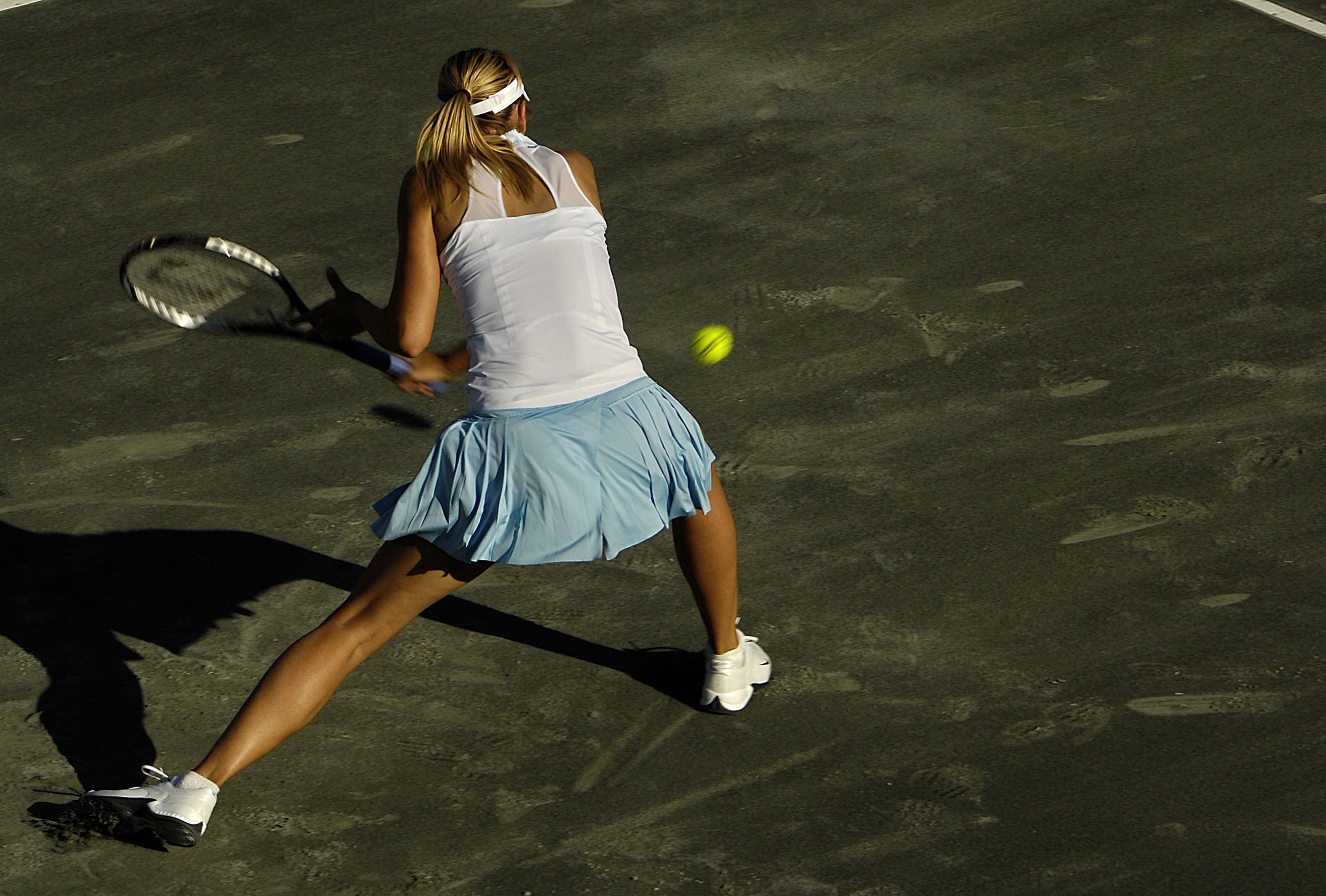 Maria Sharapova, of Russia, participates in the 2008 Family Circle Cup, Women Tennis Association tennis match at the Family Circle Center, in Charleston, S.C., April 17, 2008. Sharapova won the match 7-5 in the first set and 6-2 in the second set.